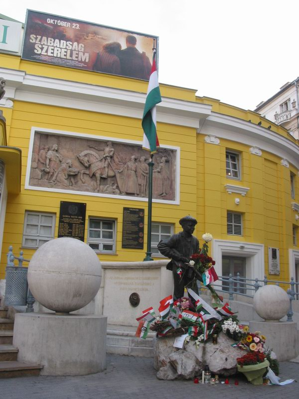 Corvin köz, Budapest, Hungary